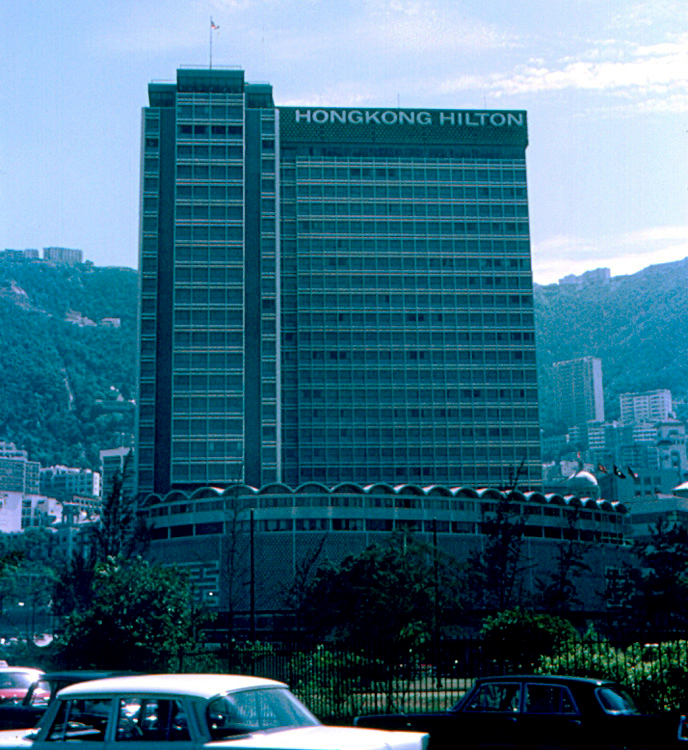 The Hong Kong Hilton Hotel in 1967.